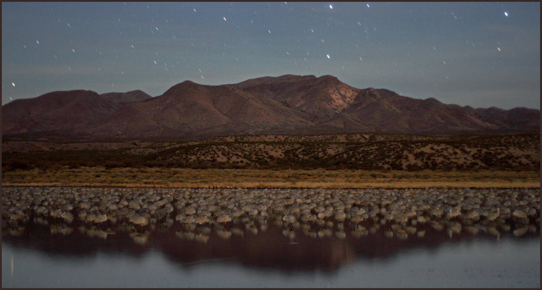 Sandhills cranes sleep under a starry sky at Bosque del Apache National Wildlife Refuge, NM. Credit: Pat Gaines